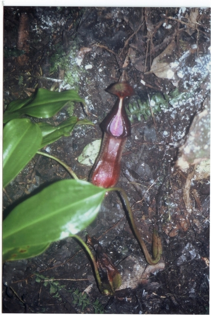 The original N. adrianii plant discovered by Adrian Yusuf in 2004 at 1000 m altitude